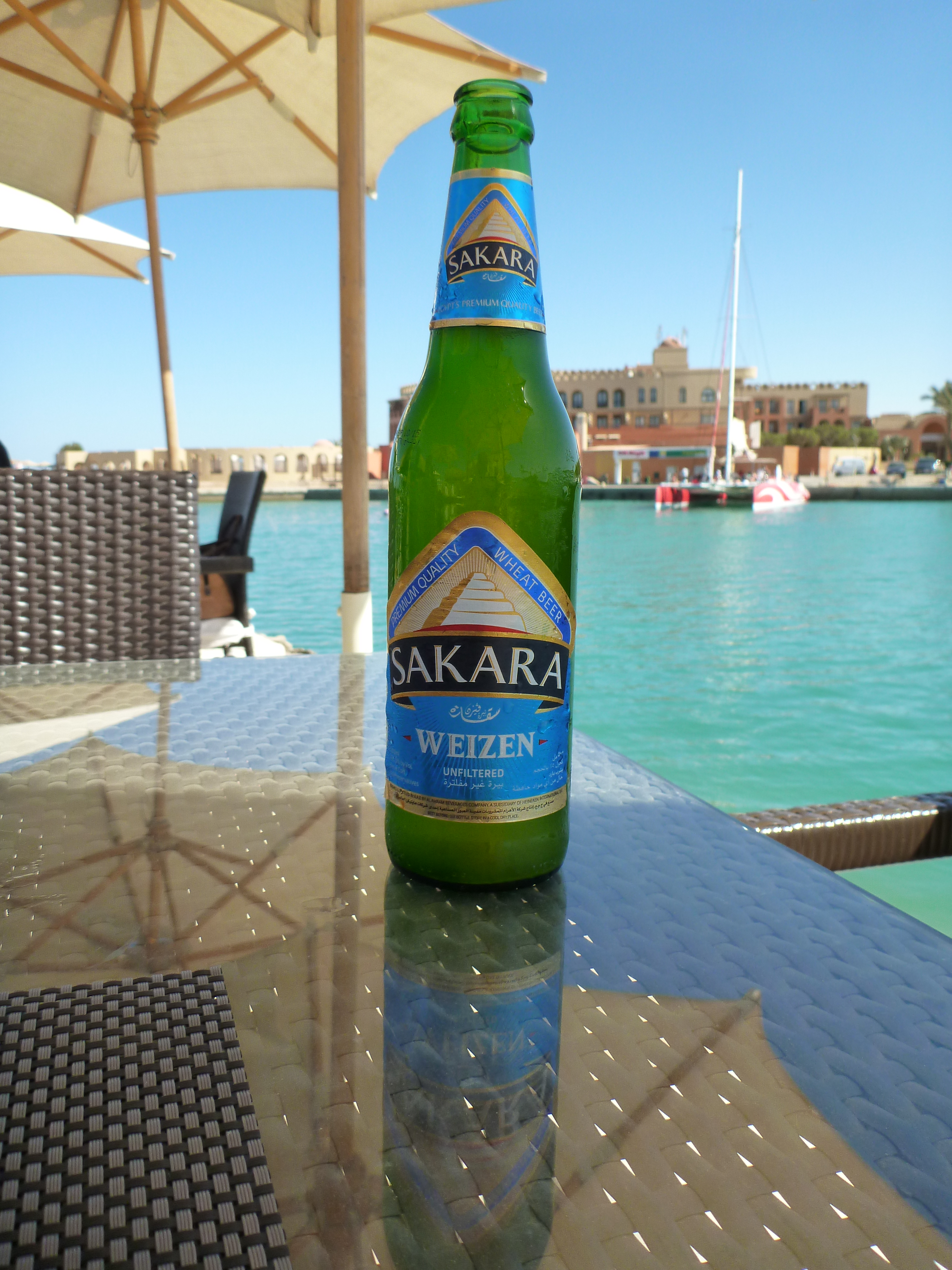 A bottle of Egypt Sakara Weizen in el Gouna with a view to the harbour